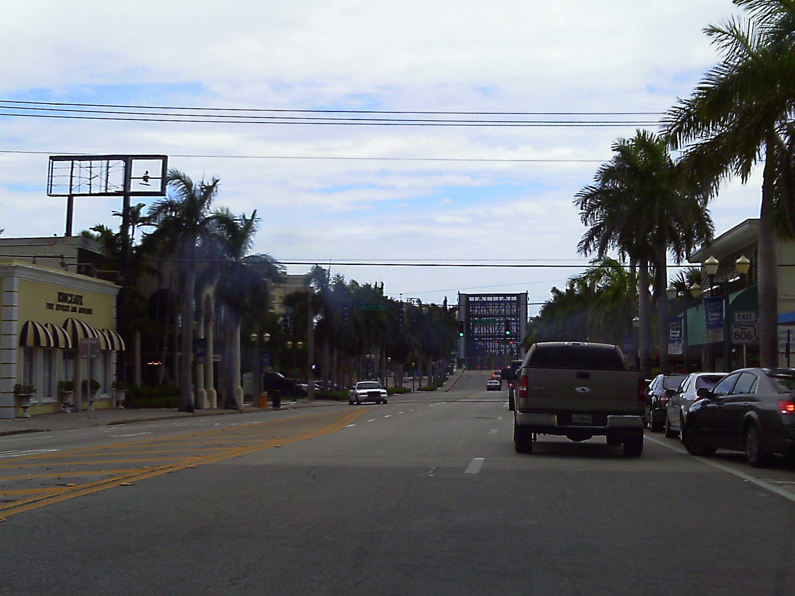 Florida State Road 806 (Atlantic Avenue) heading through downtown Delray Beach, Florida. The drawbridge over the Intercoastal Waterway is in the open position.